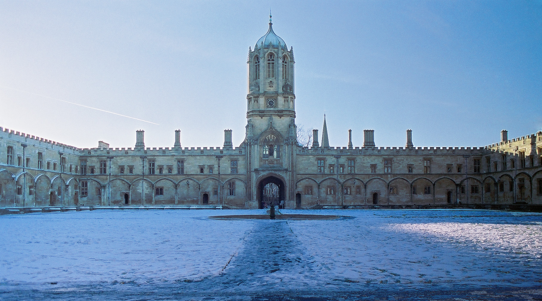 Tom Quad at Christ Church, Oxford on a beautiful snowy day.